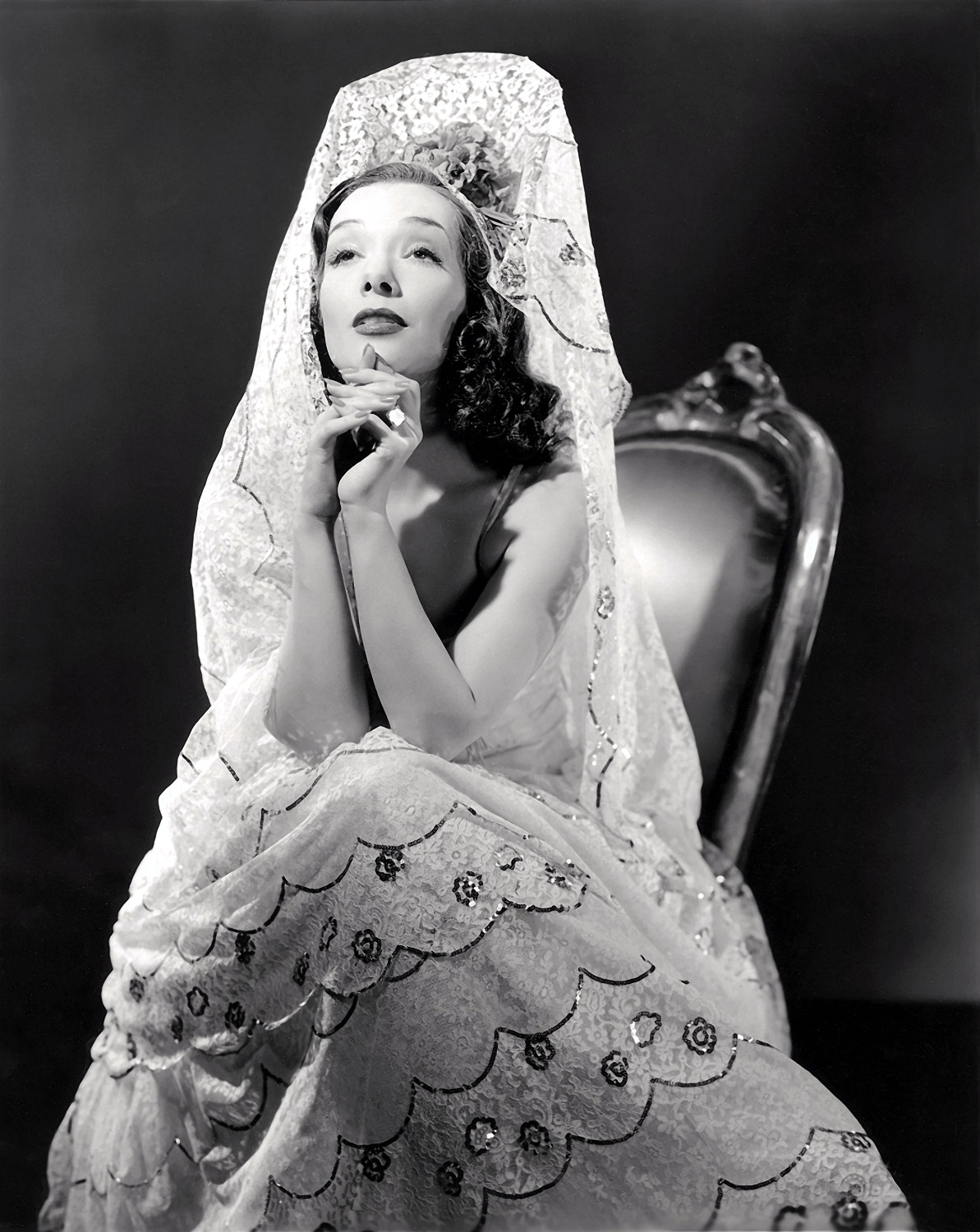 Studio publicity portrait of Lupe Vélez for film Mexican Spitfire (1940).